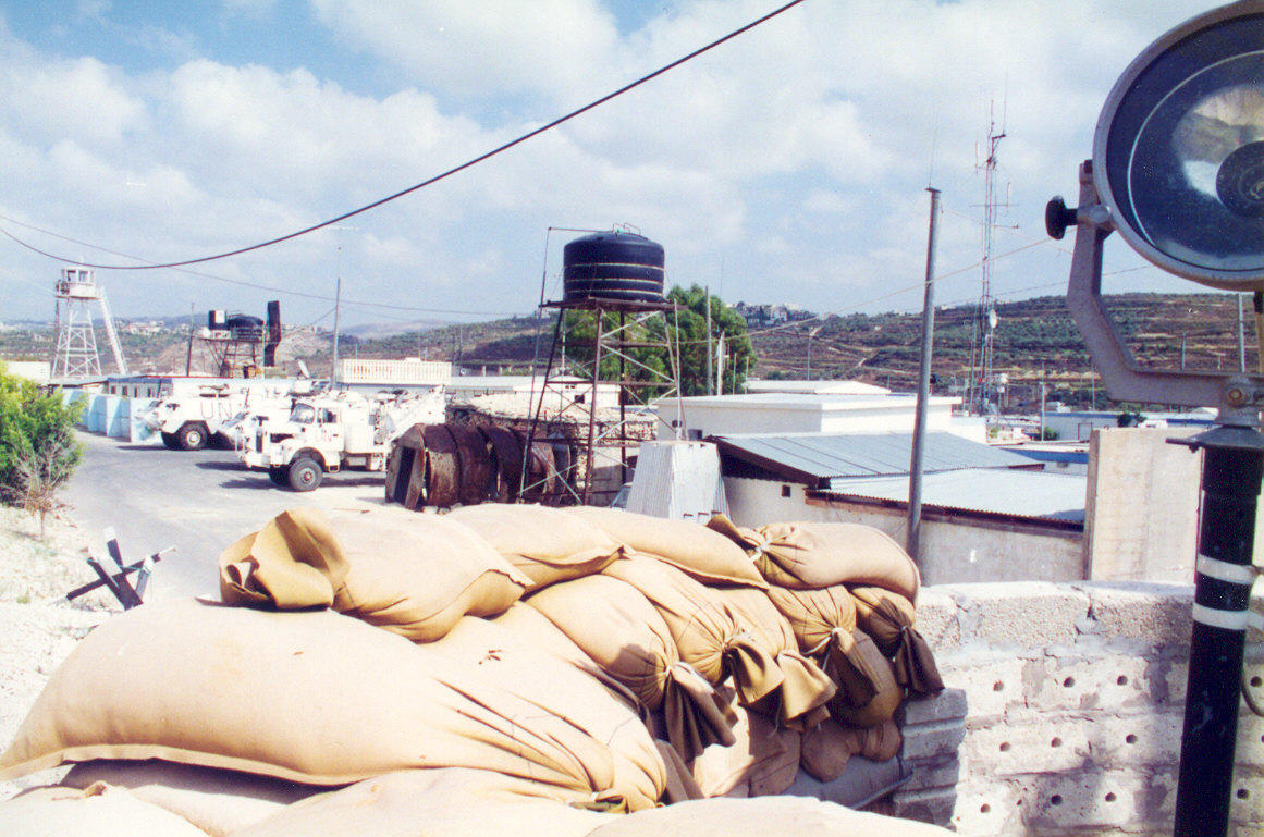 Camp Grotle was the FMR base named after the Norwegian soldier Arild Grotle. Mr Grotle was the first FMR casualty, killed on patrol as his APC turned over.